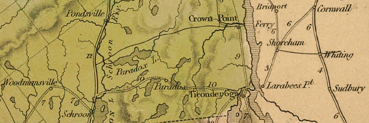 The historic Ticonderoga and Schroon Turnpike, which follows the route of the present New York State Route 74. Detail from an 1839 map of New York State.